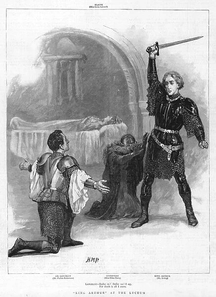 Summary: Scan of illustration from The Graphic, 19 January 1895, p. 471 King Arthur at the Lyceum Theatre, 1895. L to R: Sir Lancelot, Guinevere, King Arthur